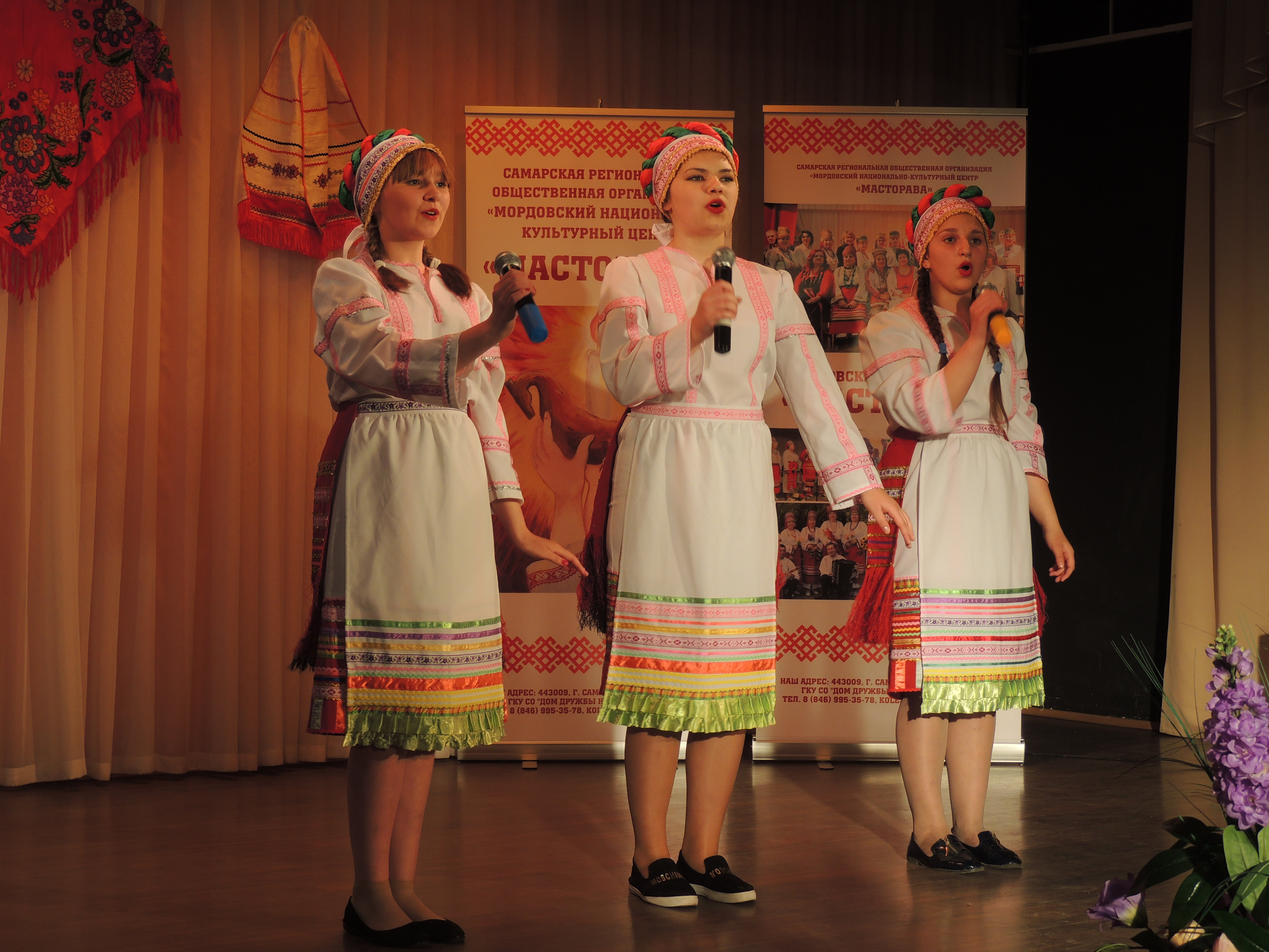 Young performers of the Koshkinsky district of the Samara region. XIX Regional festival «Spring of Mastorava» (erz. «Mastoravanj tundo»). «Friendship House of Peoples», Samara. May 21, 2017.